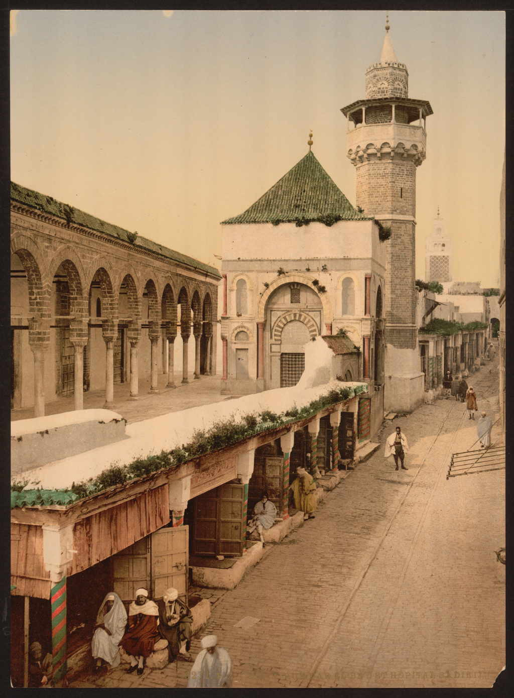 This photochrome print from around 1899 is from “Views of Architecture and People in Tunisia” in the catalog of the Detroit Photographic Company. It depicts the Sadiky Hospital in the city of Tunis. The Detroit Photographic Company was launched as a photographic publishing firm in the late 1890s by Detroit businessman and publisher William A. Livingstone, Jr. and photographer and photo-publisher Edwin H. Husher. They obtained the exclusive rights to use the Swiss "Photochrom" process for converting black-and-white photographs into color images and printing them by photolithography. This process permitted the mass production of color postcards, prints, and albums for sale to the American market. Hospitals